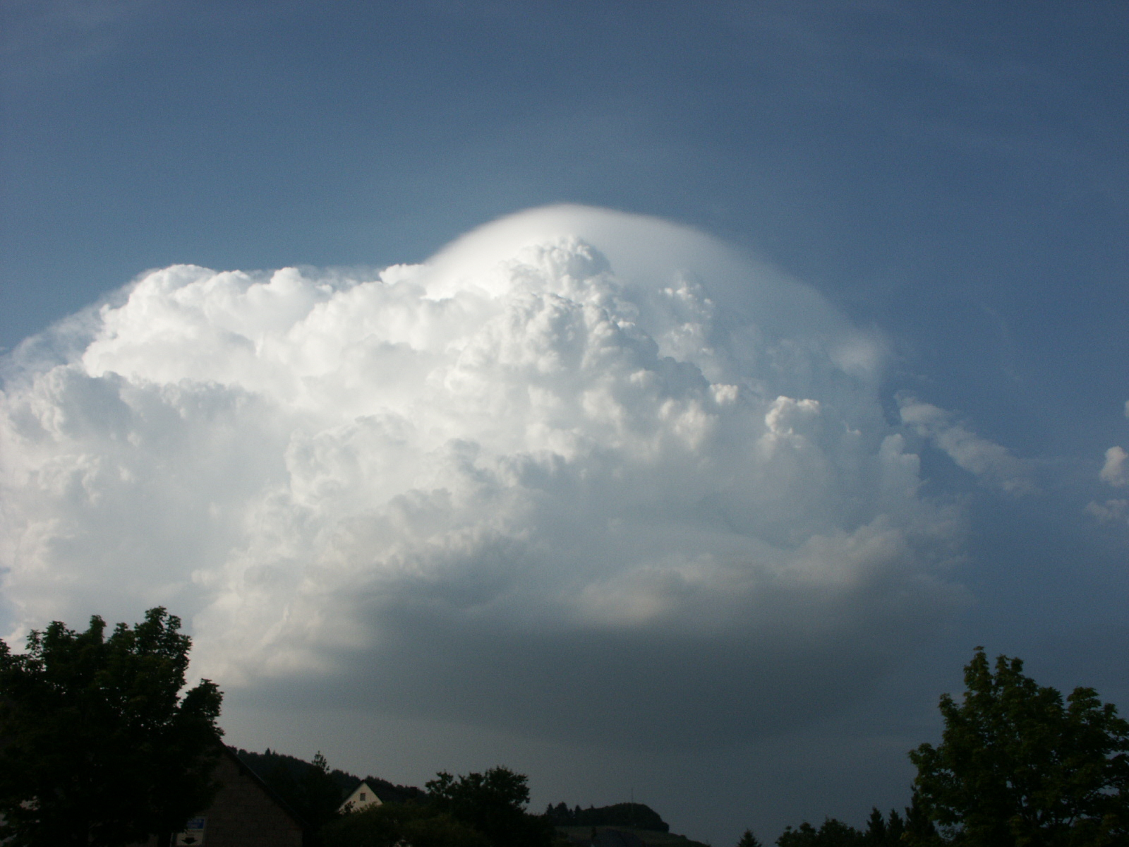 Pileus about Saarburg (Rhineland-Palatine), 27. July 2005 at 7.38 p.m.